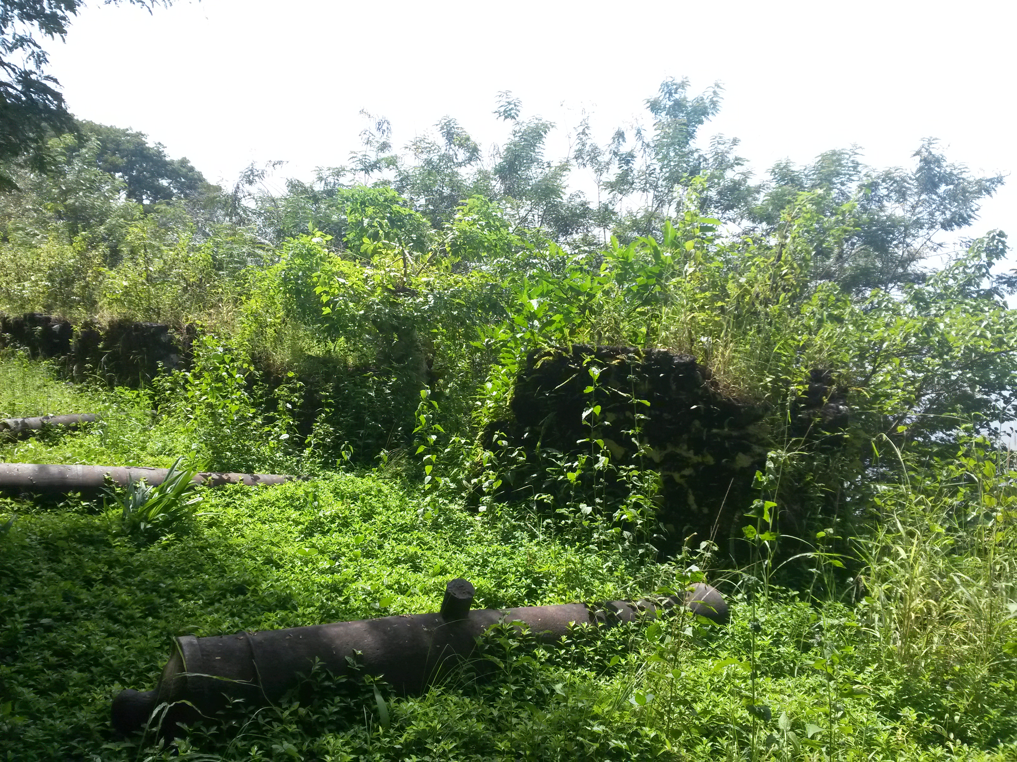 Bunce Island is an island in the Sierra Leone River situated in Freetown Harbour. The island measures houses a castle that was built by a British slave-trading company in c.1670. Tens of thousands of Africans were shipped from here to the North American colonies of South Carolina and Georgia to be forced into slavery, and are the ancestors of many African Americans of the United States.